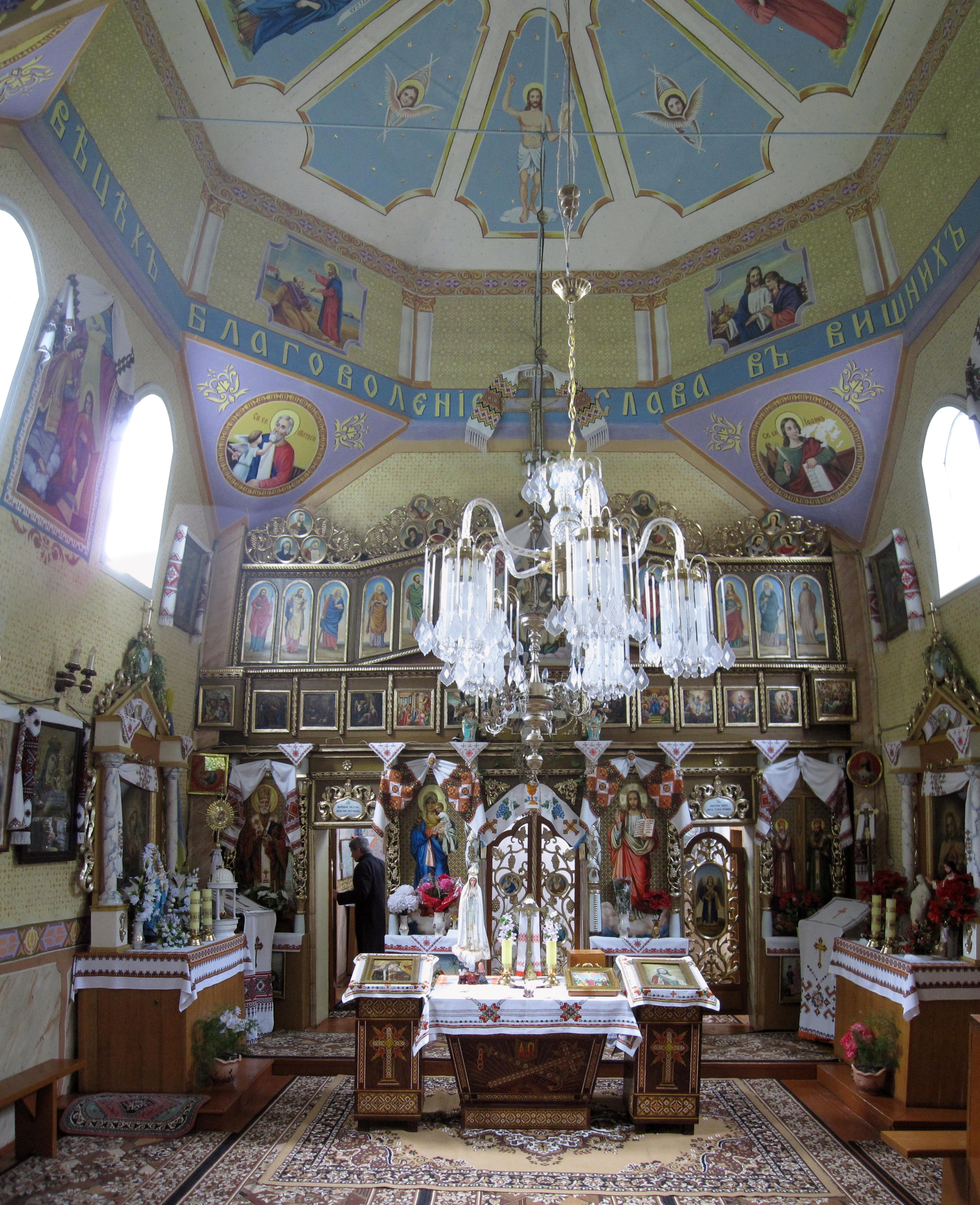 Interior of the church with iconostasis in the Church of the Theotokos in Sielec, Drohobych Raion in Galicia in western Ukraine.